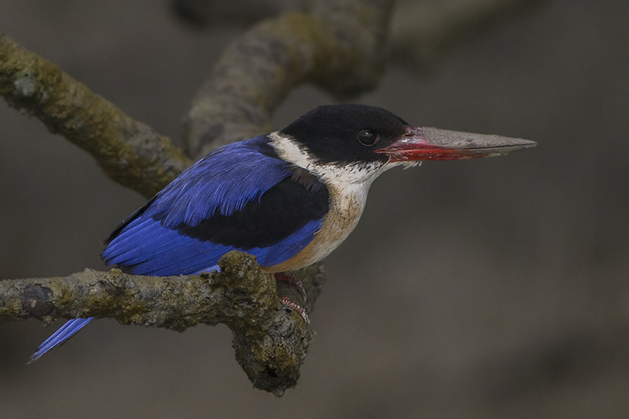 The specie Black-capped Kingfisher had been photographed from Sundarban of South 24-parganas district of the state of West Bengal, India on 30th December 2014.